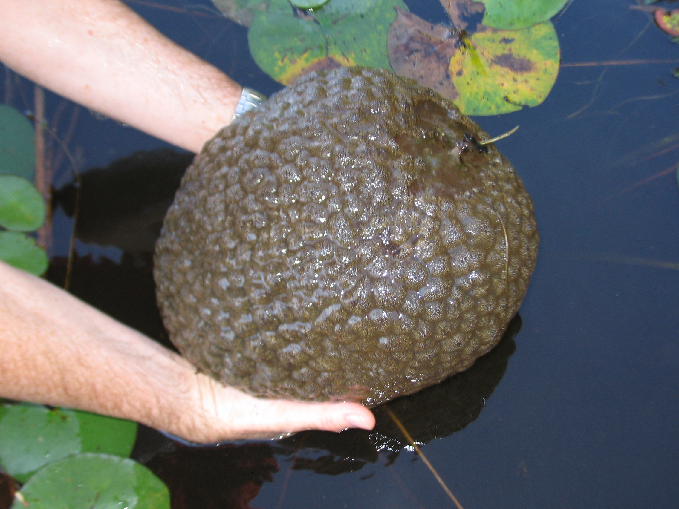 Photo of Pectinatella magnifica, a member of the Pectinatellidae family of Bryozoa being lifted from a pond.